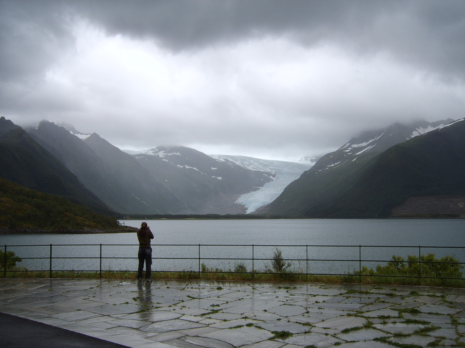 Svartisen glacier, in particular its Engabreen fragment, and the Holandsfjord